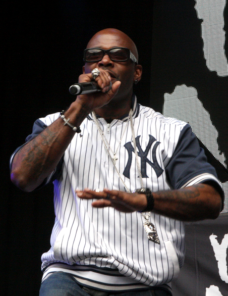 Treach of Naughty by Nature performing at the 2012 Supafest in Sydney, Australia.